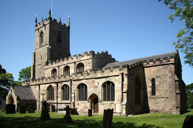 All Hallows Church Externally Perpendicular but with a Norman and Early English interior